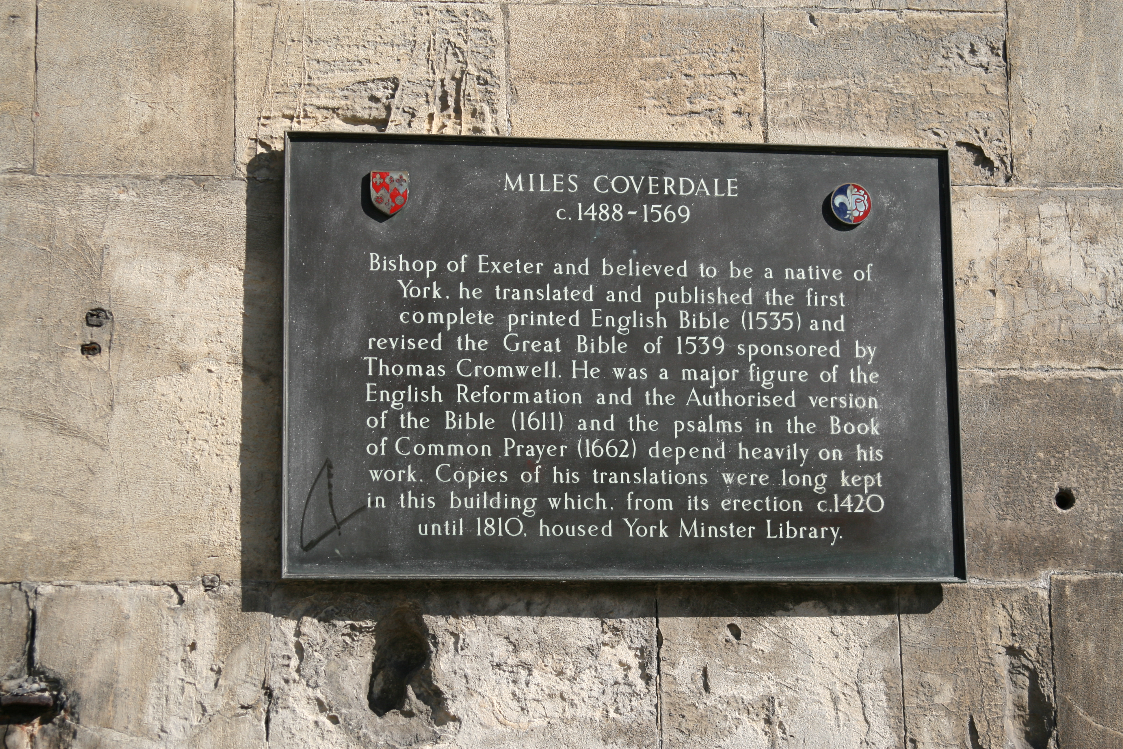 In and around York: Miles Coverdale, Bible translator